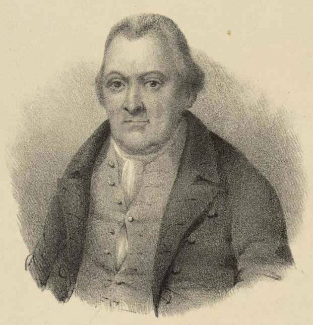 A portrait from the Welsh Portrait Collection at the National Library of Wales. Depicted person: Owen Jones – Welsh antiquarian